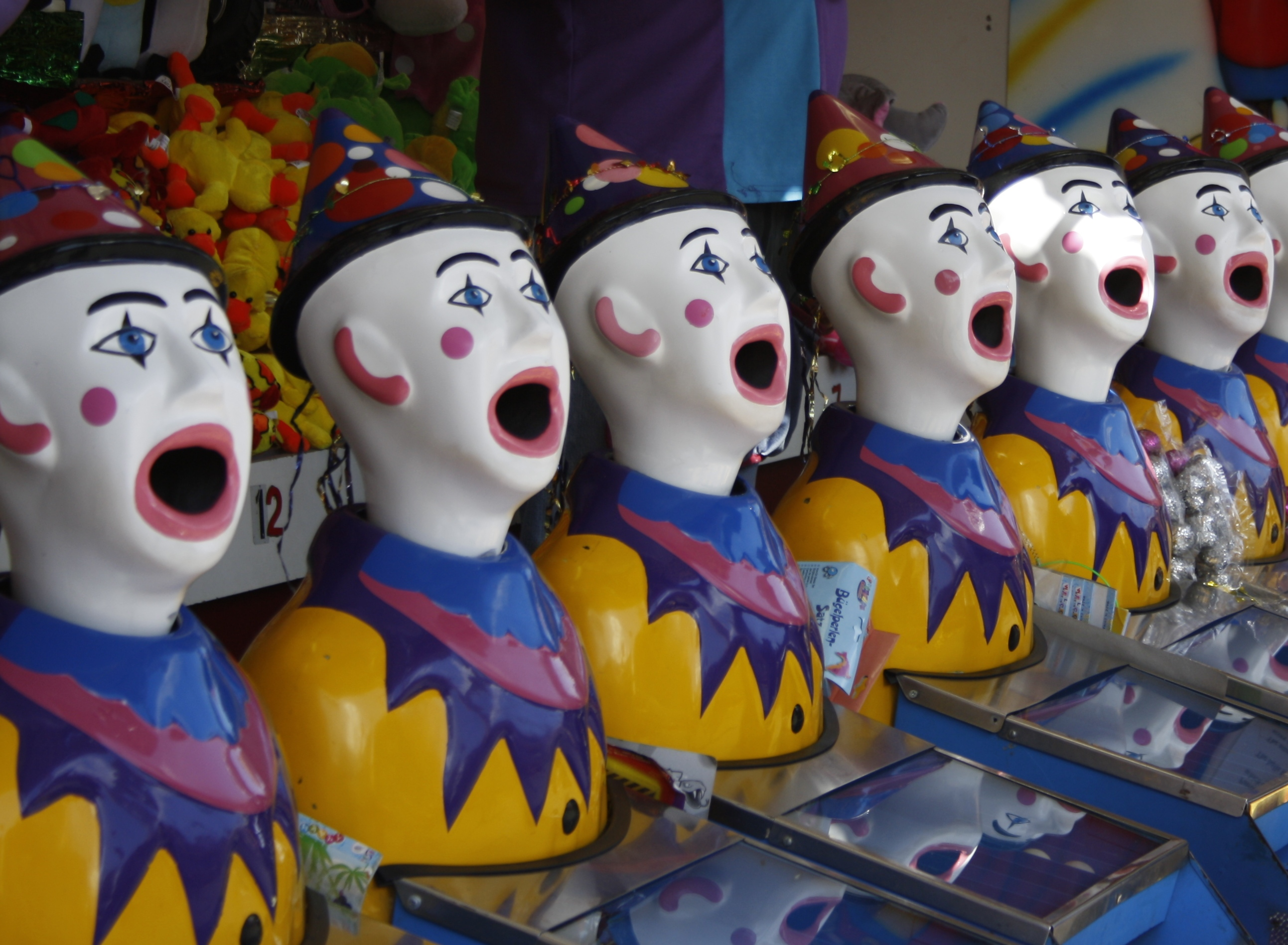 Ekka, 2013. Clowns game.